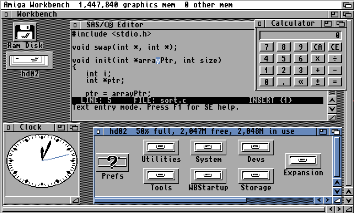 Screen shot of Amiga Workbench 3.1 running on an emulated Amiga 1200